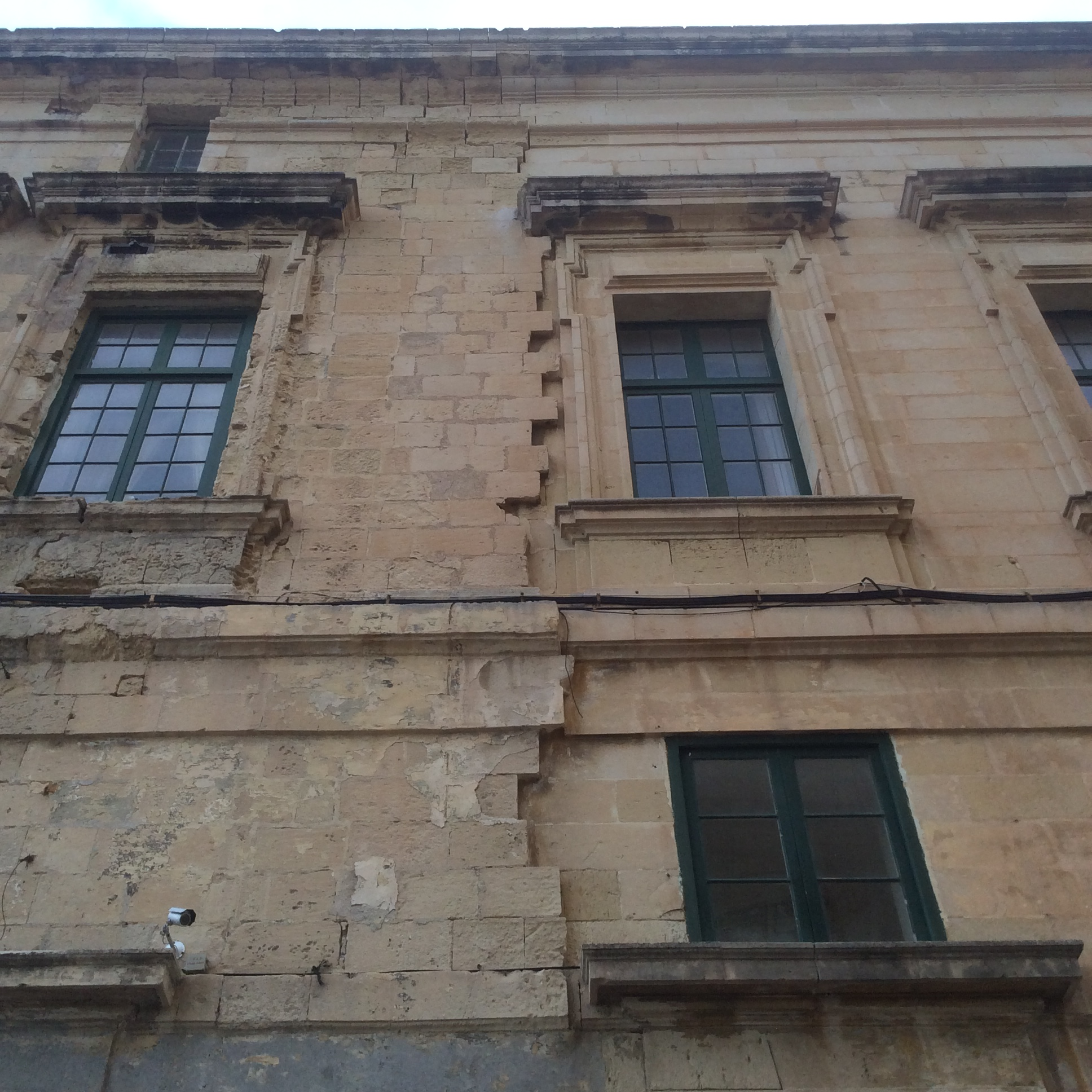 Side of Auberge Valletta - sea - building suffered structural damage